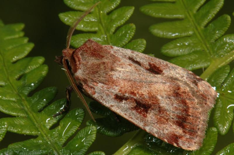 Coenophila subrosea. Location: The Netherlands - Nationaal Park De Meinweg